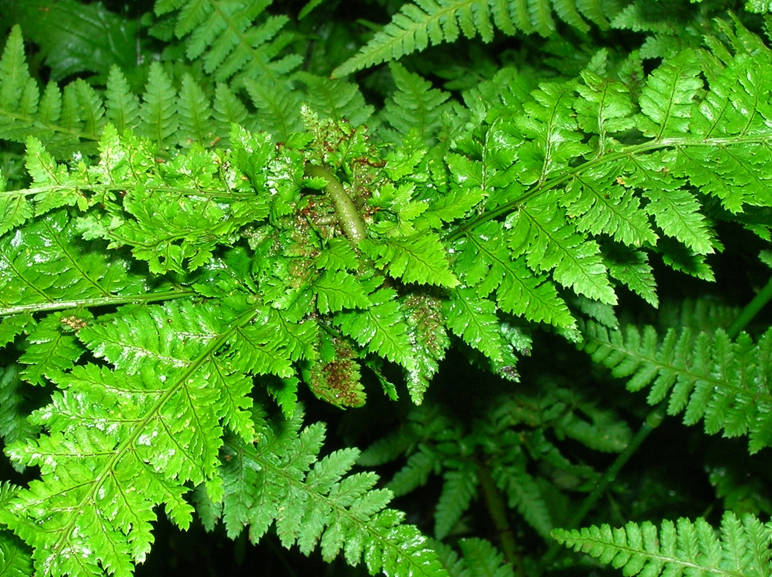 Chirosia betuleti, Knotting Gall on the Broad buckler fern Dryopteris dilatata, Barrmill, Scotland.